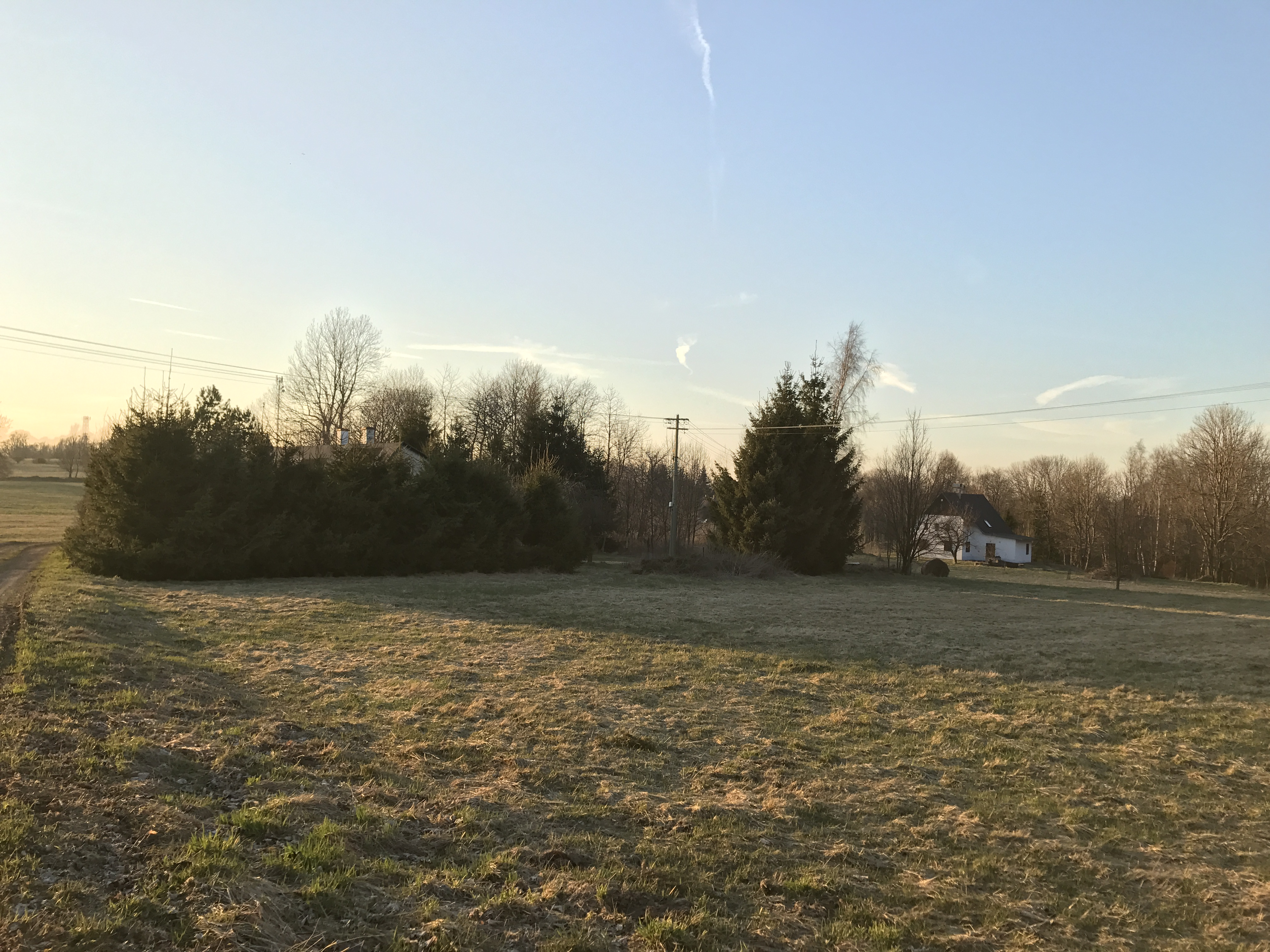 Houses in Světliny 2. díl, Varnsdorf, Děčín District.